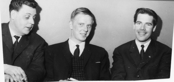 Photograph of Yleisradio TV employees: engineer Verman (left), and journalists Tauno Äijälä (1941–) and Anssi Kukkonen (1934–).